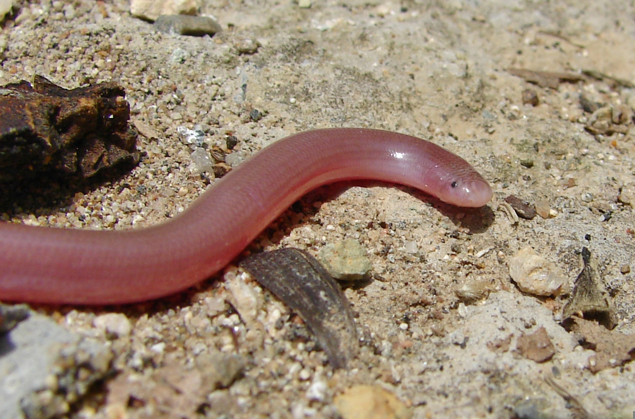 Typhlops vermicularis in Bulgaria